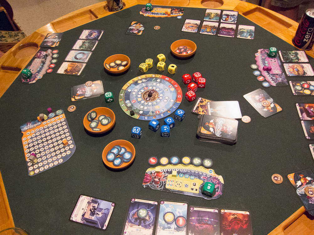 Seasons 10-3-2012